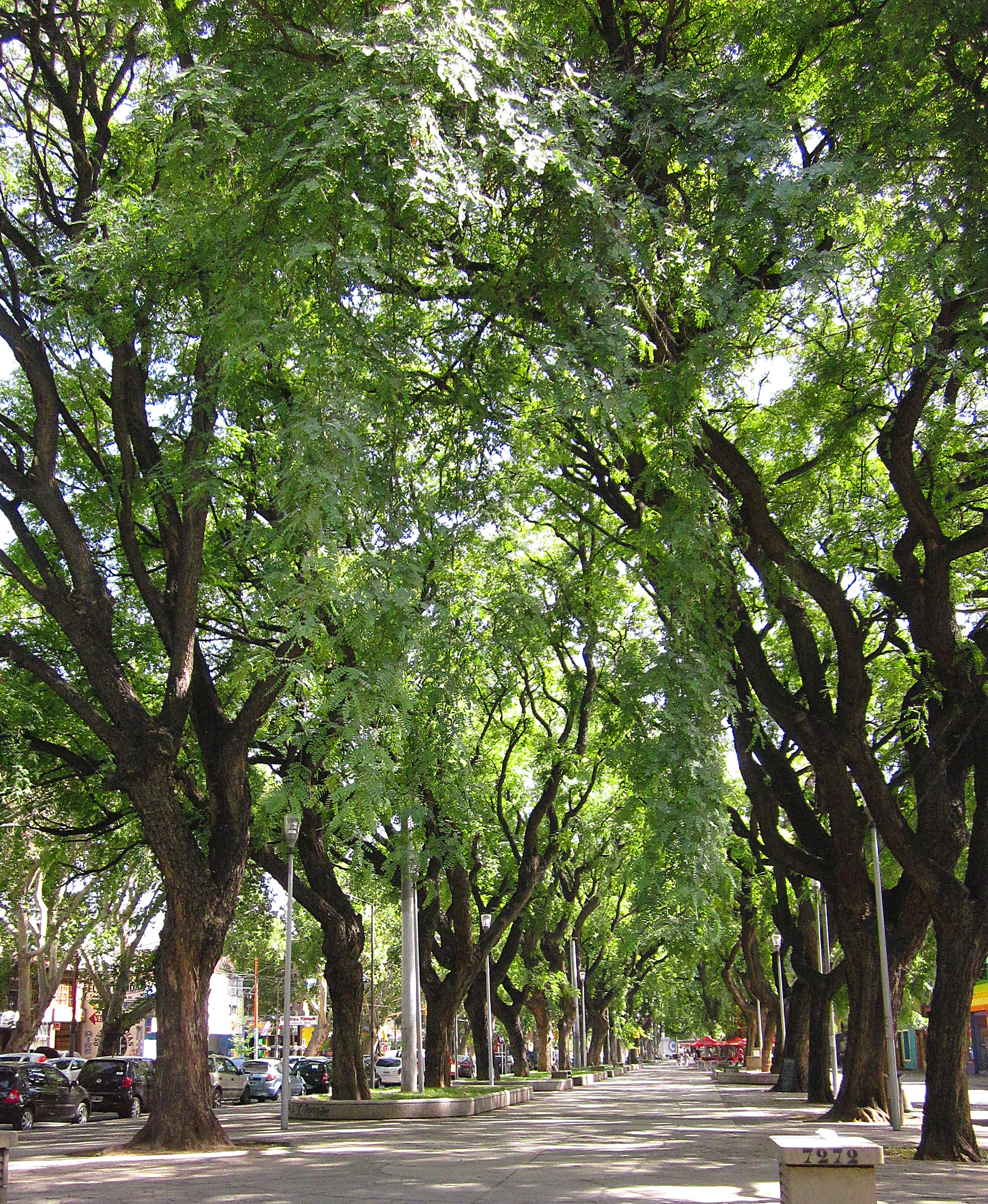 La Alameda. Un recorrido peatonal forestado con grandes árboles.